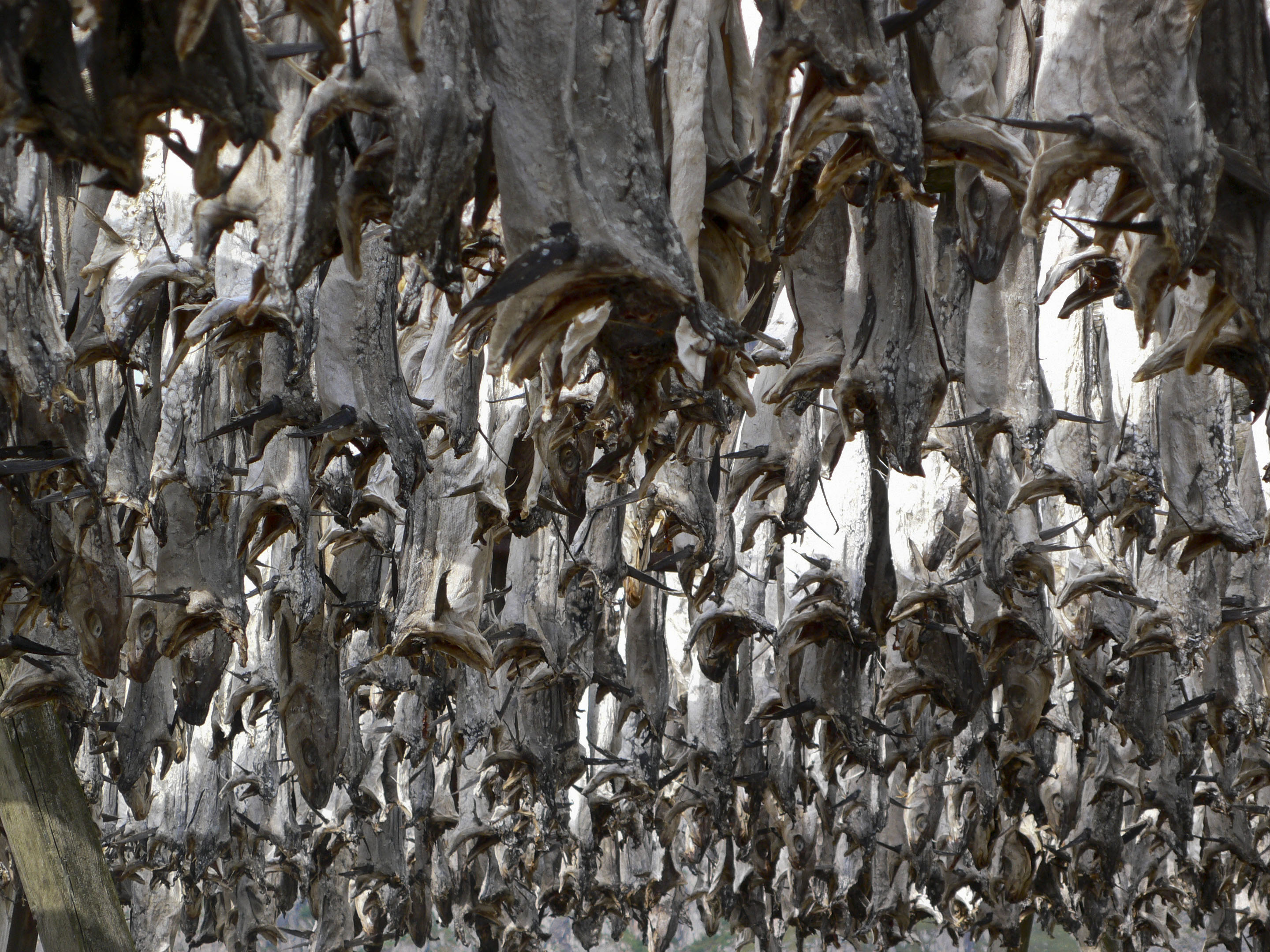 Fish drying on wooden racks